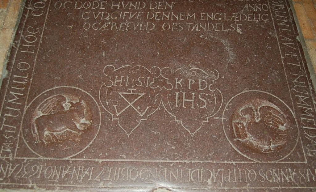 Tombstone for the priest Jersin at Hedrum church, Norway